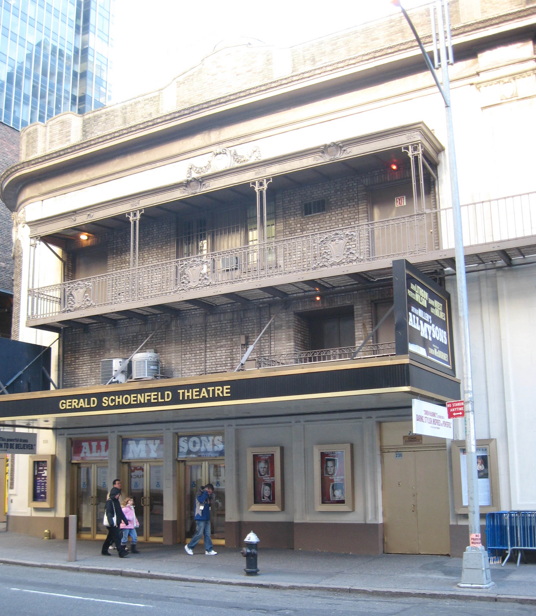 Looking south across 45th Street at the Gerald Schoenfeld Theatre on a cloudy afternoon.